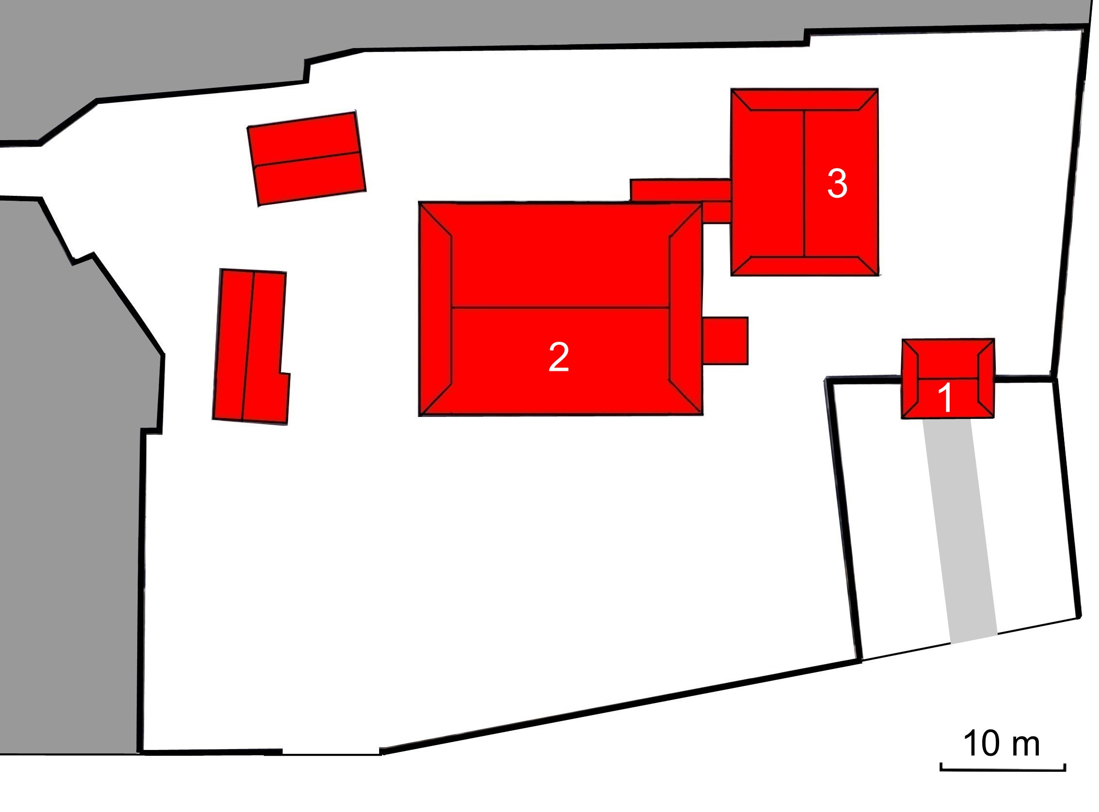 Layout of Manju-ji (Kyōto), Japan